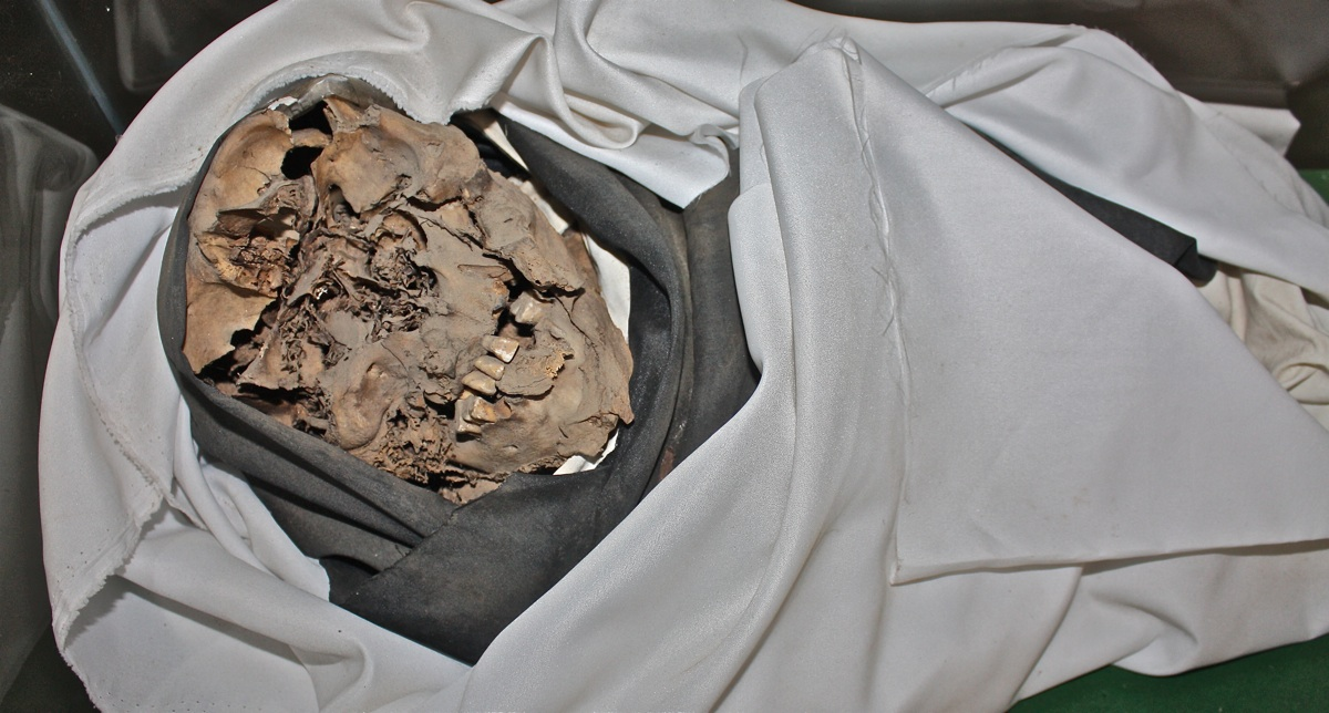 Picture of mummy from Shimbillo-Chazuta, Peru; Housed at the Museo Regional-UNSM.